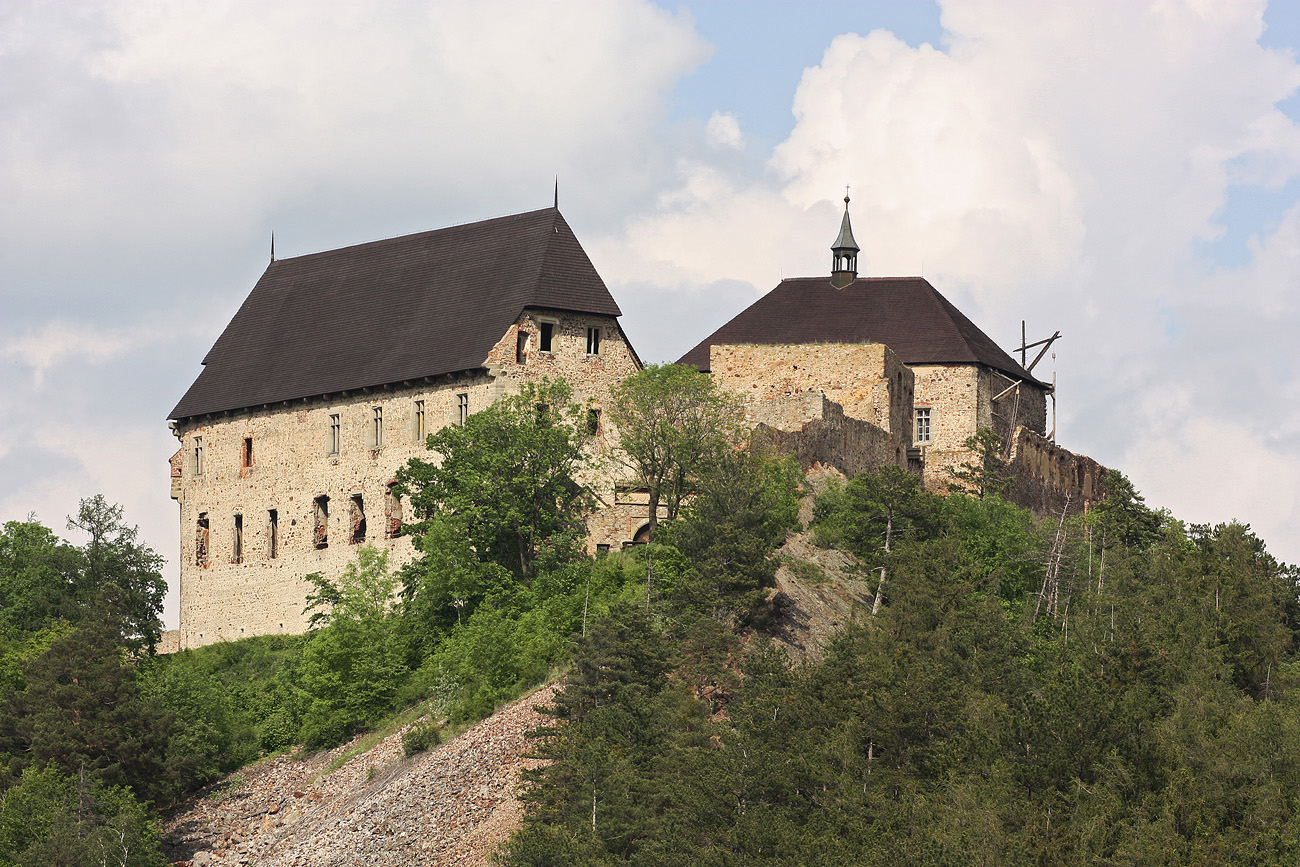 Křivoklátsko - hrad Točník